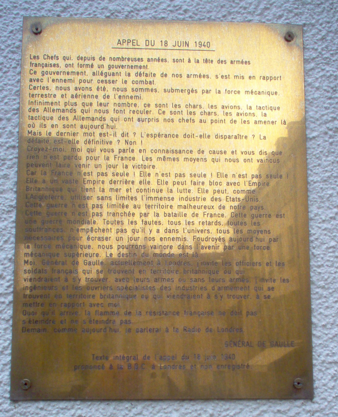 Plate with the famous Charles De Gaulle speech to nazi-occupied France, on the 18th of June 1940. The plate states also that this appeal was not registered, and therefore just the text survived. The photo was taken in Vienne (France)